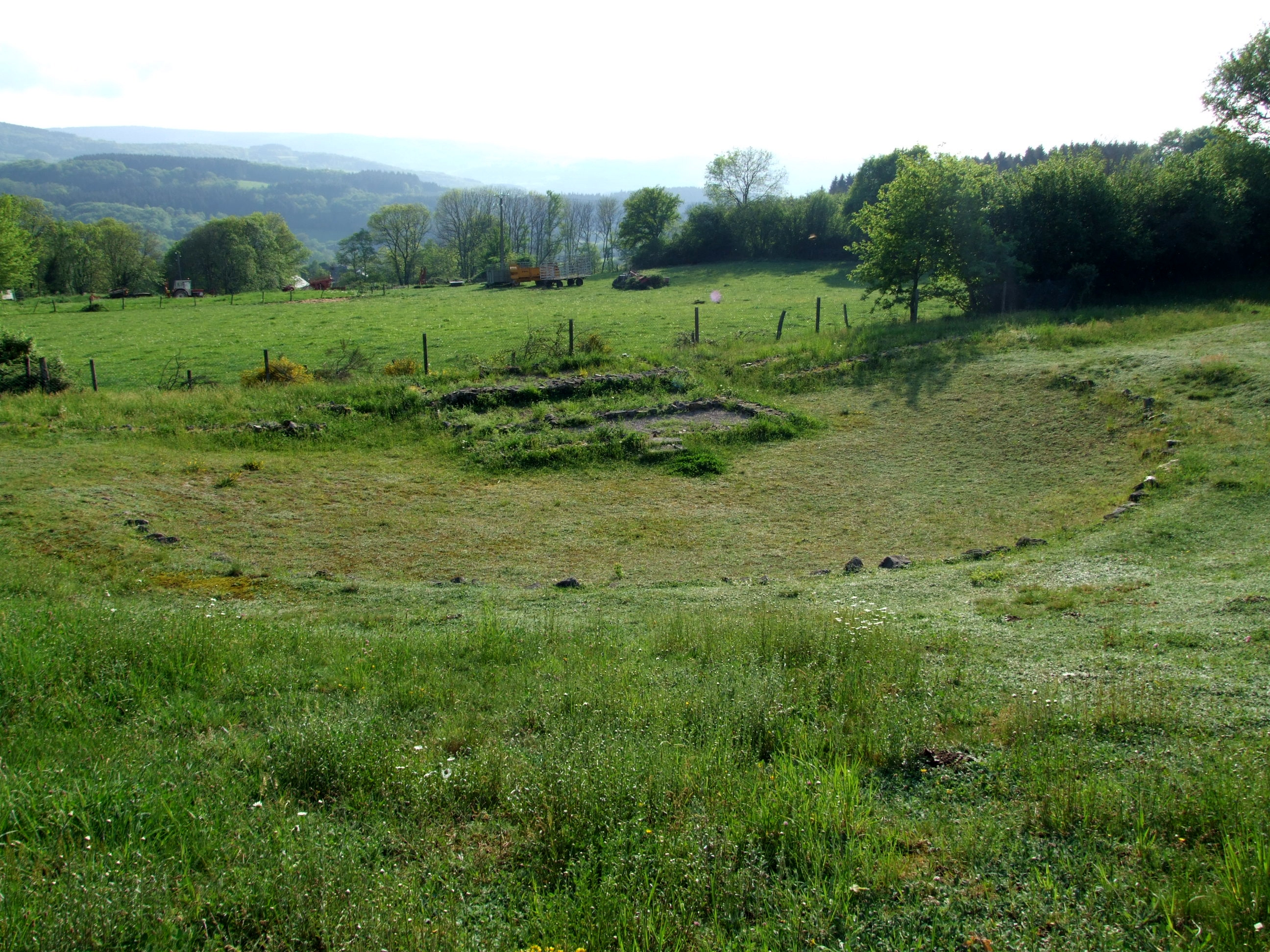 Burgundy, FRANCE